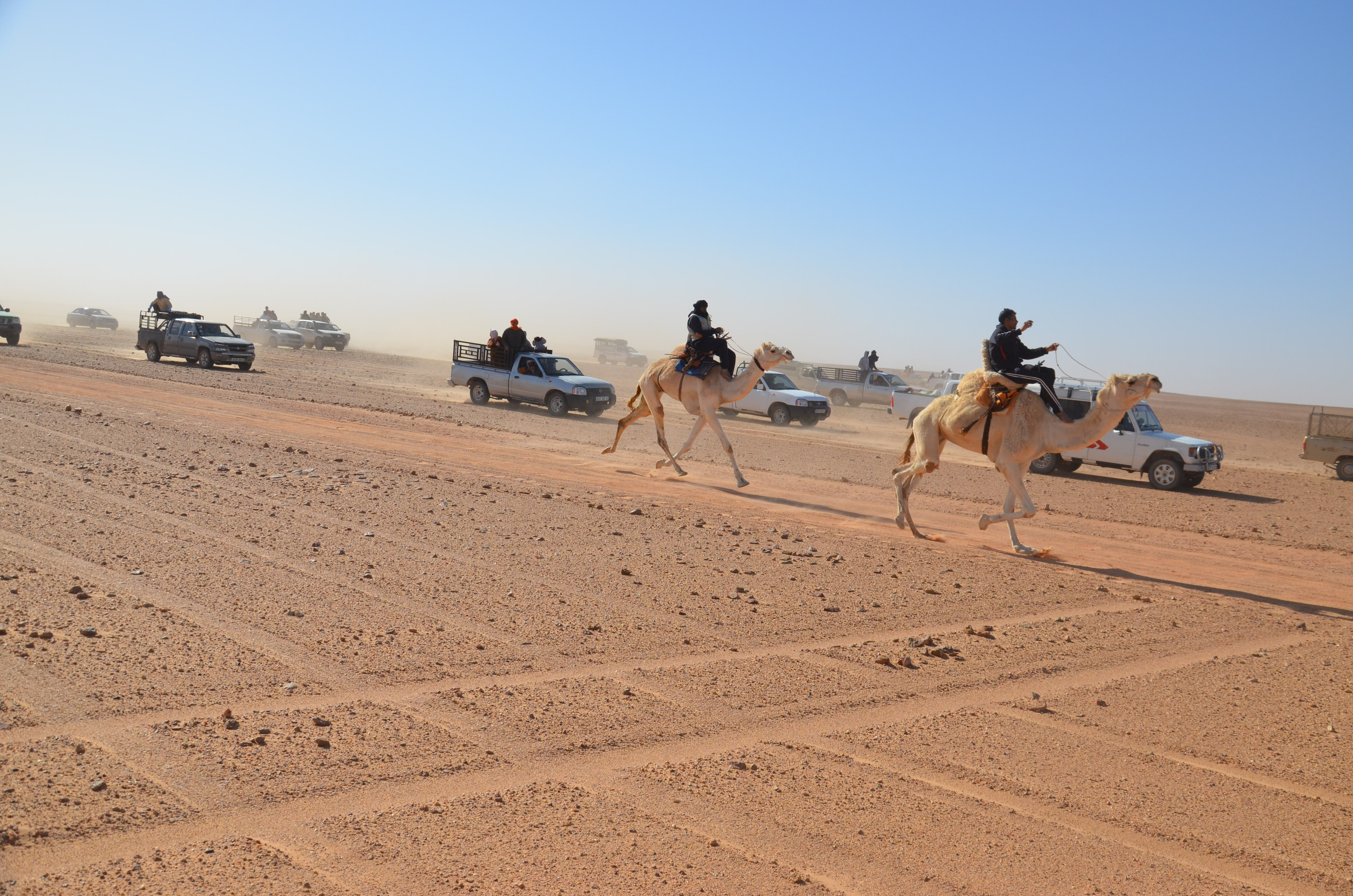 This is an image with the theme "Play" from: Algeria